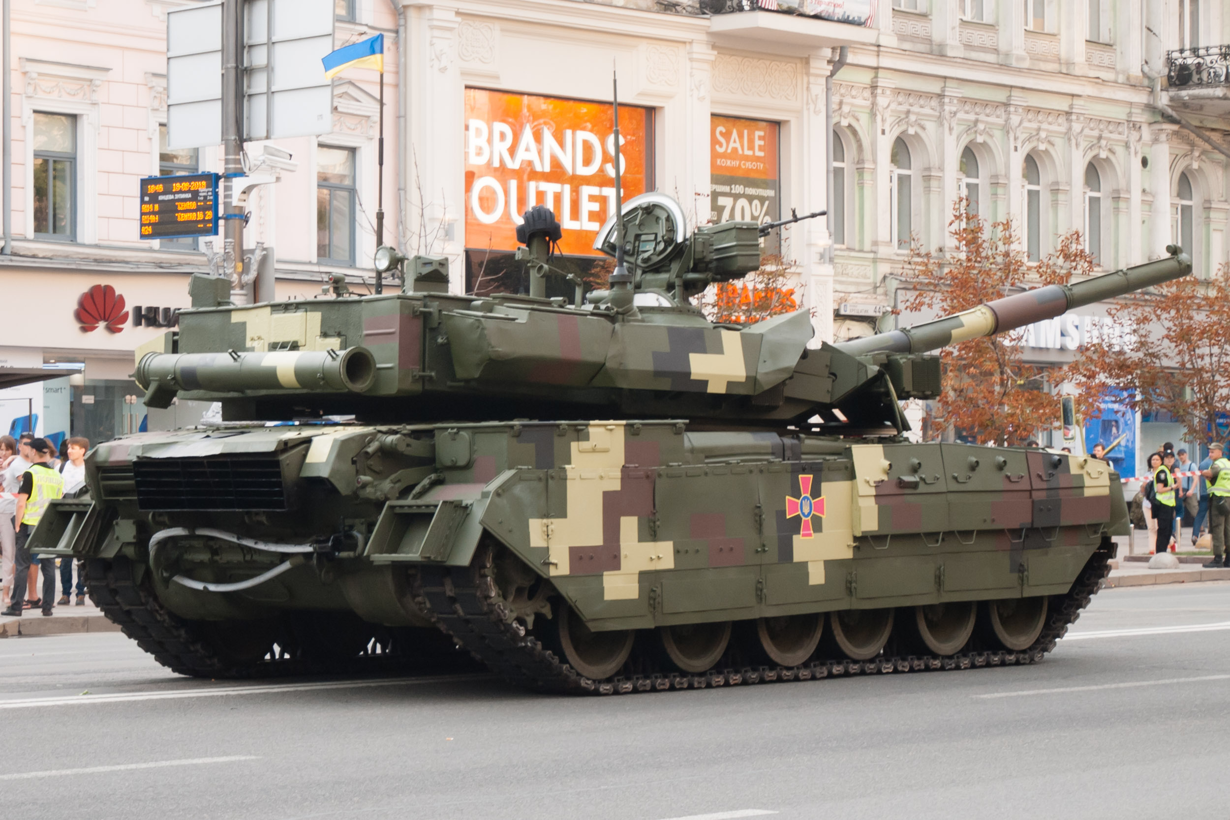 Т-84-120 main battle tank, rehearsal for the Independence Day military parade in Kyiv, 2018